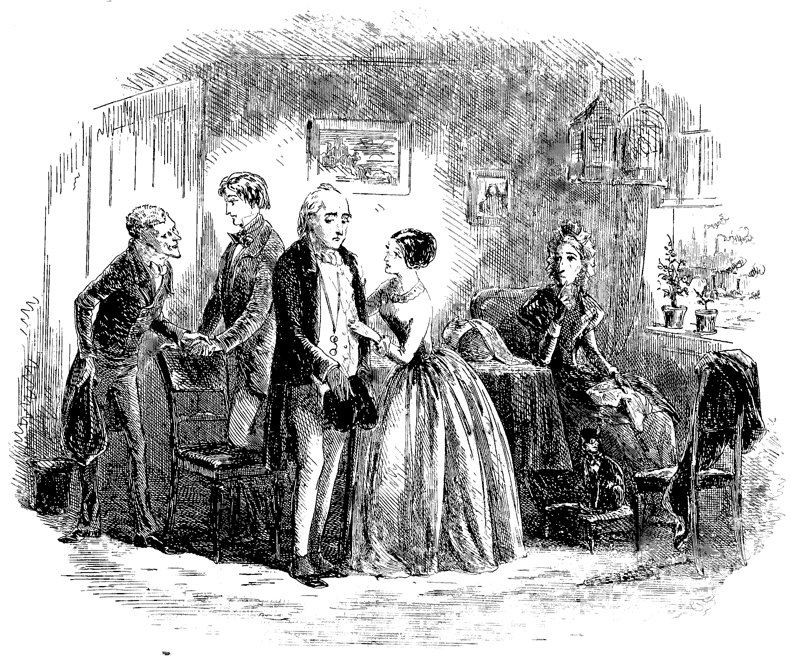 MR. WICKFIELD AND HIS PARTNER WAIT UPON MY AUNT